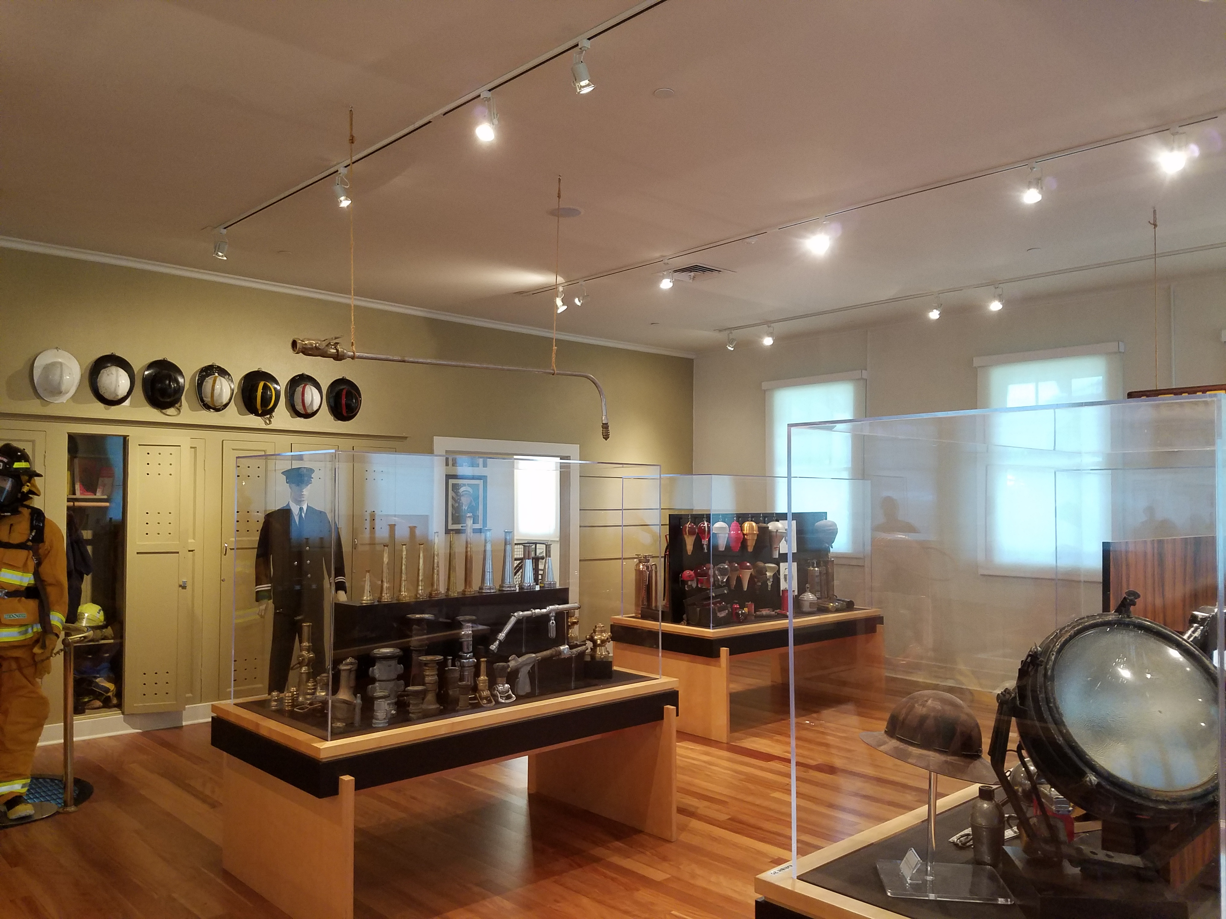 HFD Museum display